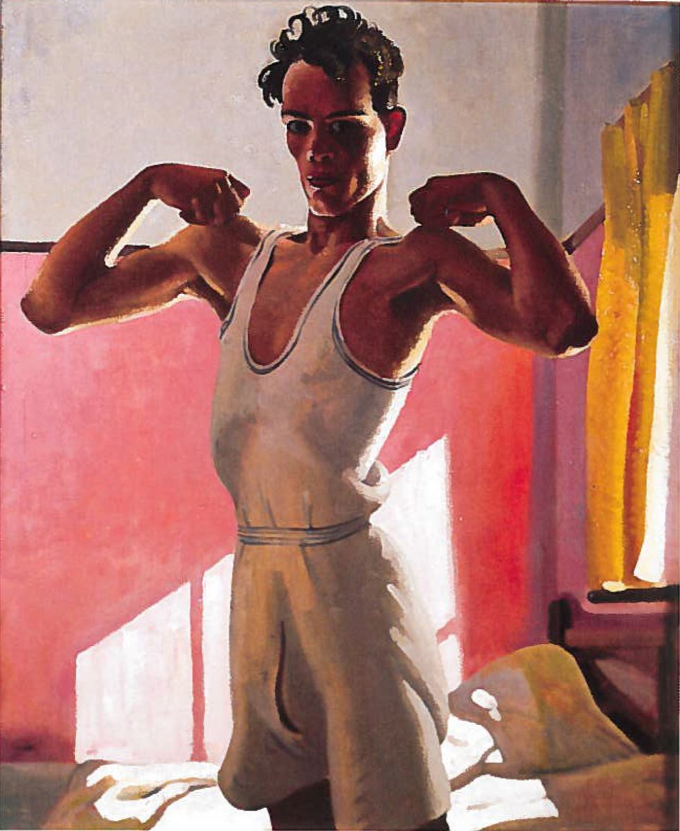 Morning exercise (selfportrait), oil on canvas, 76 x 63.5 cm, private collection.